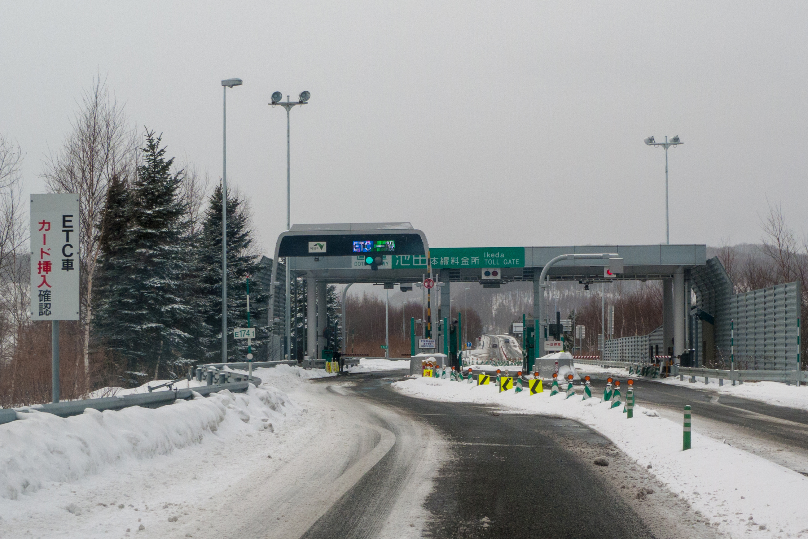 Ikeda Toll Gate on the Doto Expressway in Ikeda Town, Hokkaido, Japan